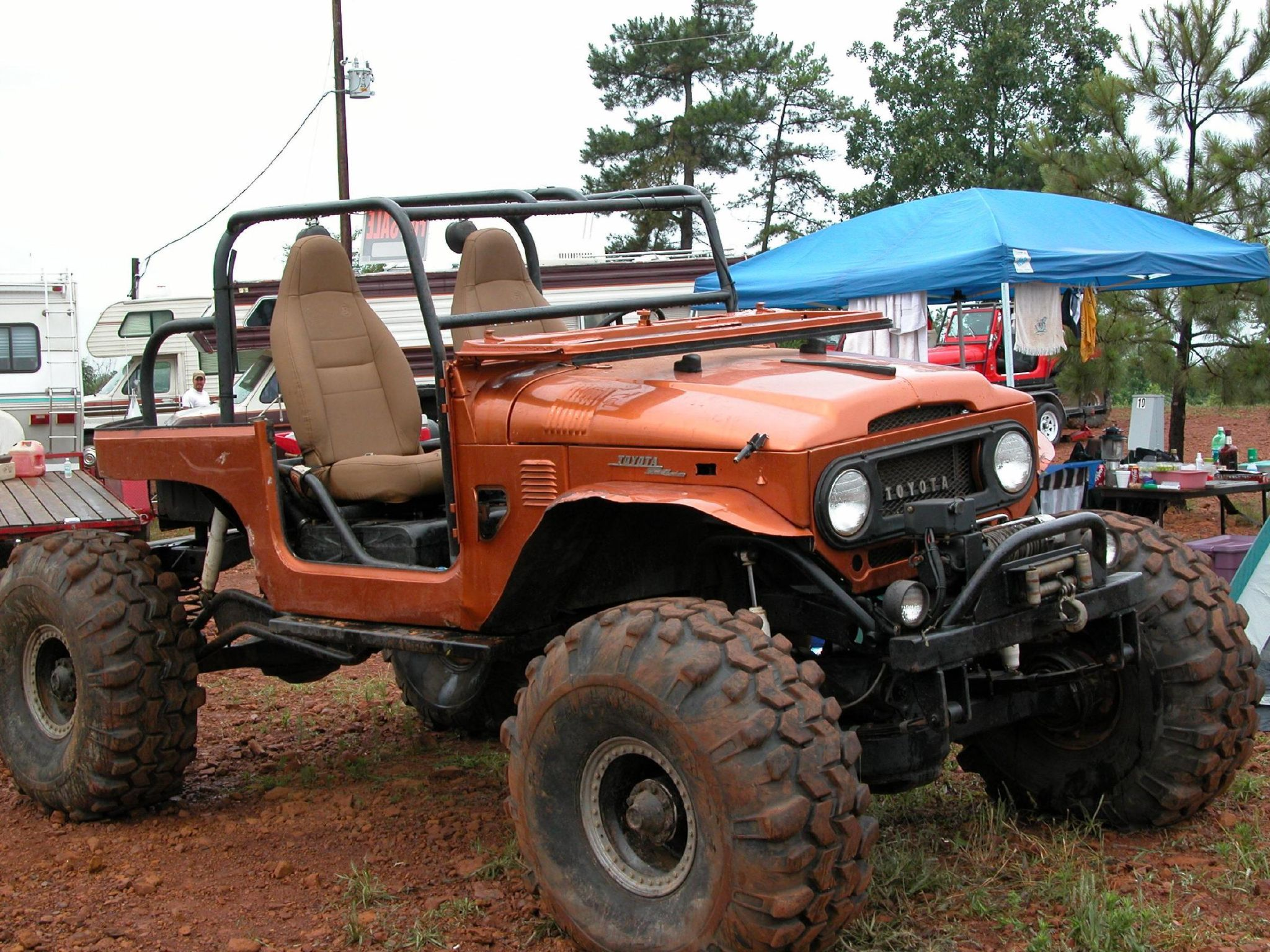 Toyota Land Cruiser FJ40Dallas